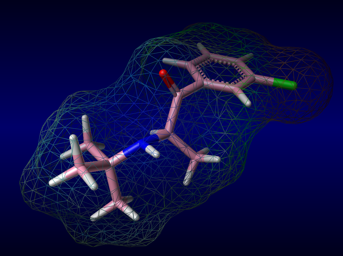 3D structure of Bupropion with electrostatic potential mapped to molecular surface Benchware 3D Explorer